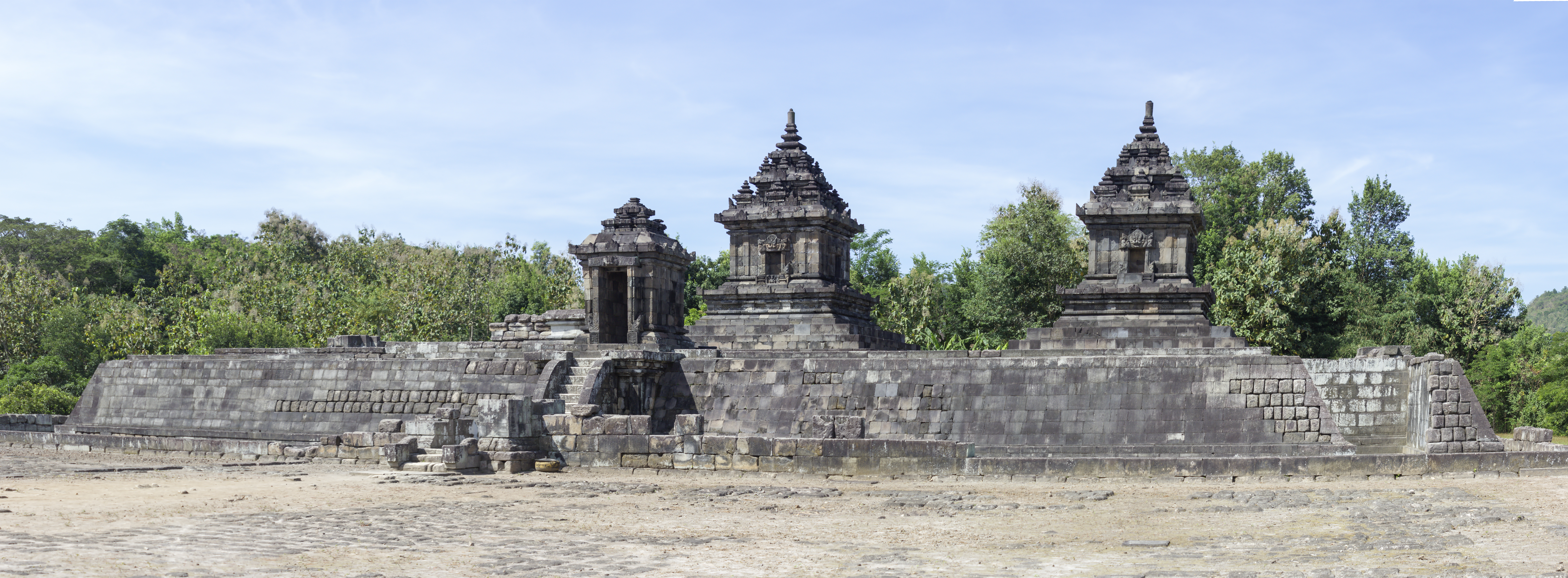 Barong temple (stitch), 2014-05-31